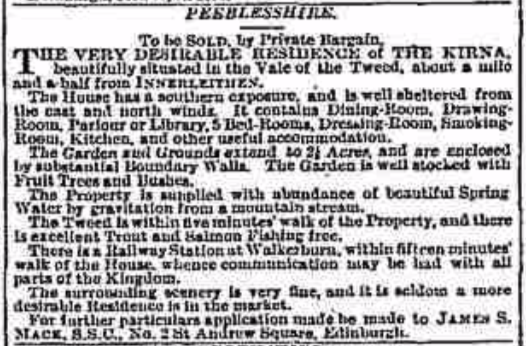 Newspaper clipping of a For Sale advertisement in The Scotsman April 15, 1871